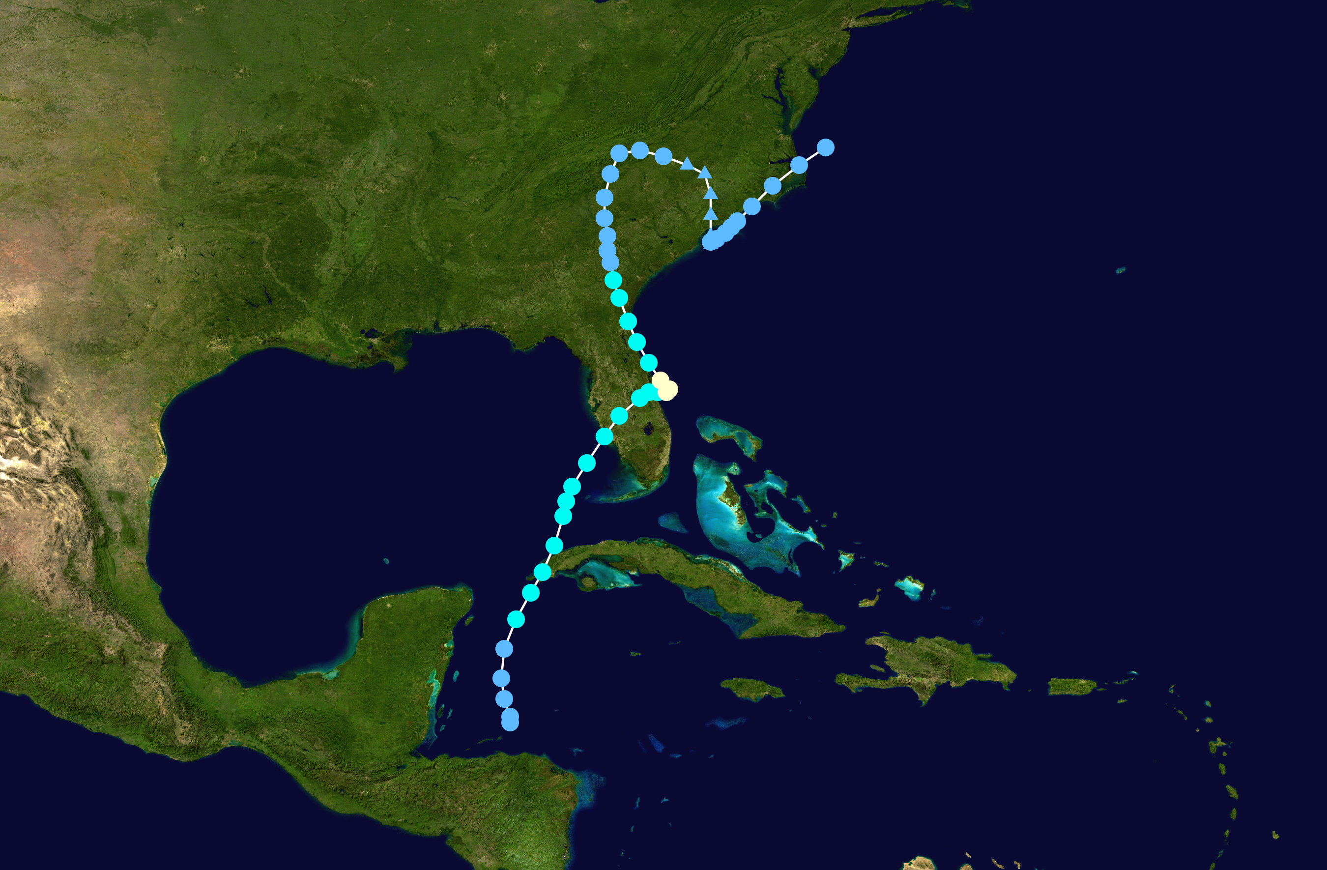 Hurricane Abby (1968) track. Uses the color scheme from the Saffir-Simpson Hurricane Scale.